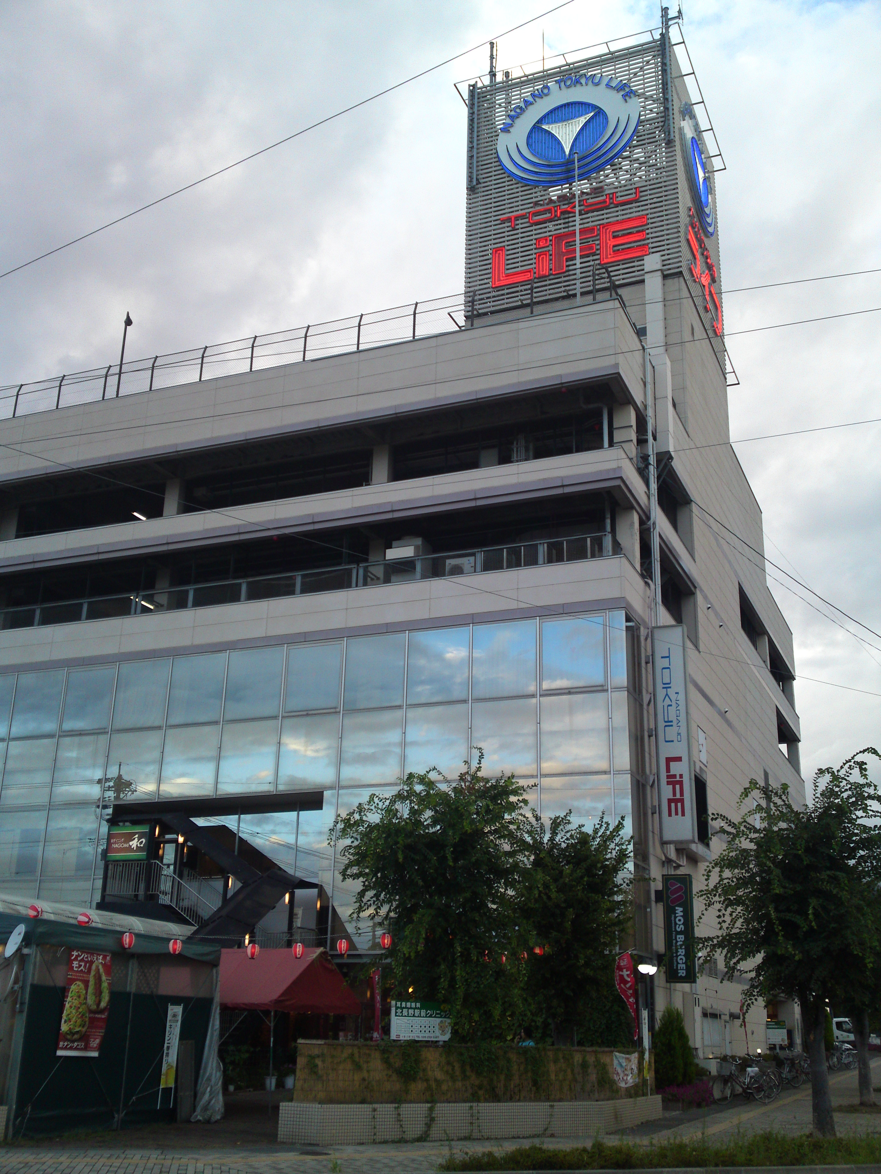 Kitanagano Shopping Centre (Nagano Tokyu LIFE) Bldg., Nagano, Nagano, Japan